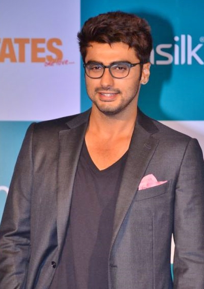 Arjun Kapoor at a promotional event for the film "2 States"